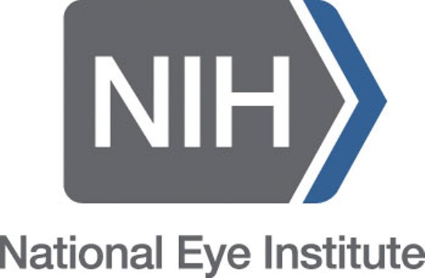 National Eye Institute logo